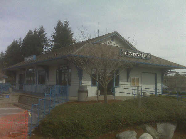 Amtrak Station at Olympia-Lacey